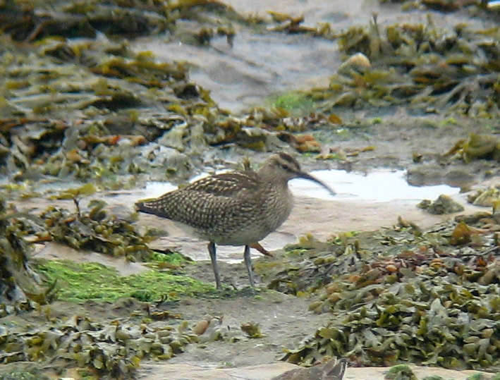 Numenius phaeopus phaeopus, St Mary's Island, Northumberland, UK